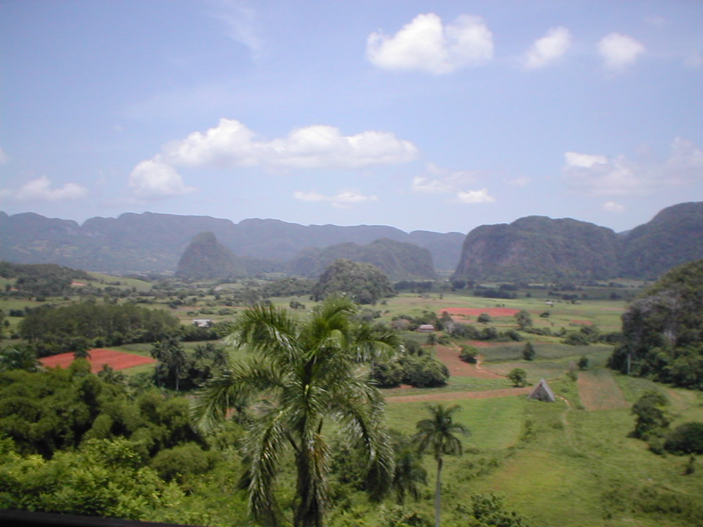 The Vinales Valley.